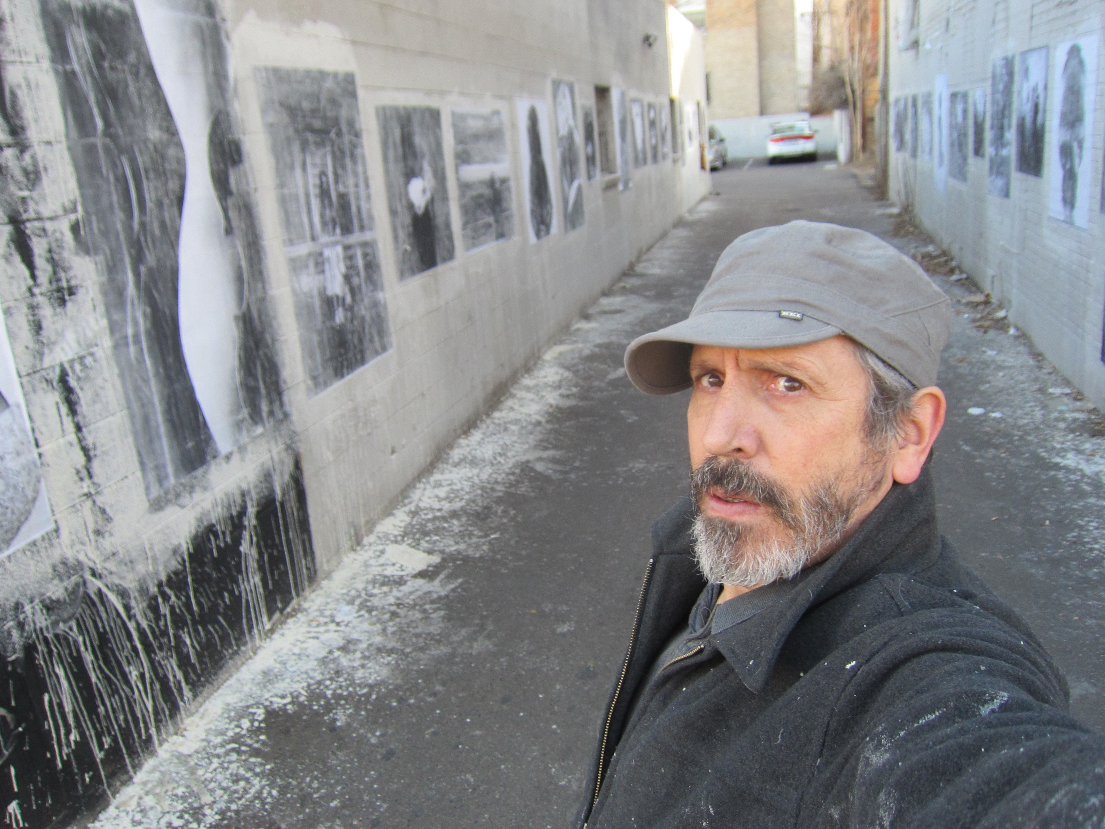 Mark Sink self portrait wheat pasting in Denver Colorado.